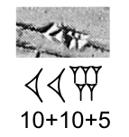 Example of sumerian sexagesimal measurement